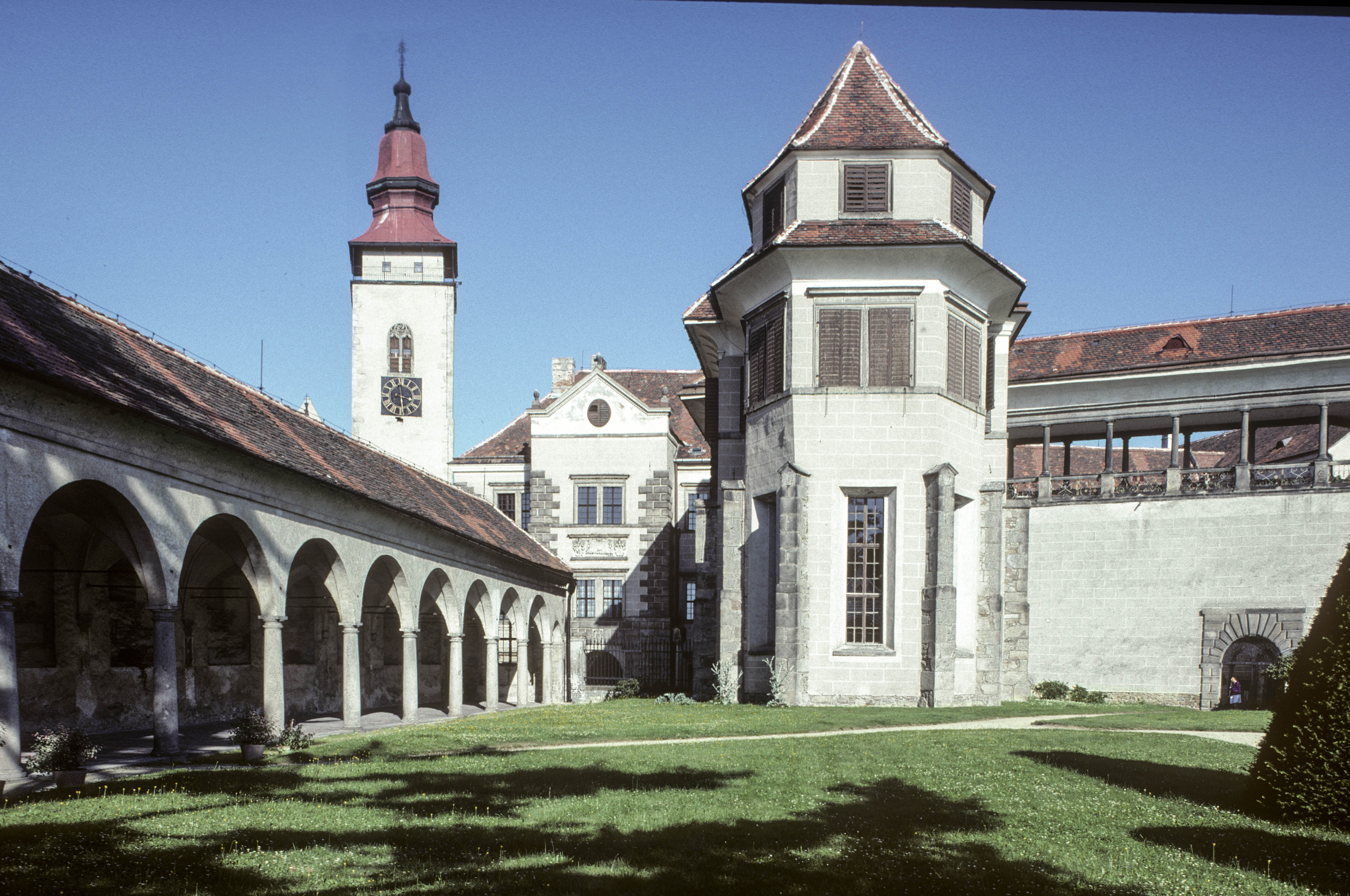 Telc Castle